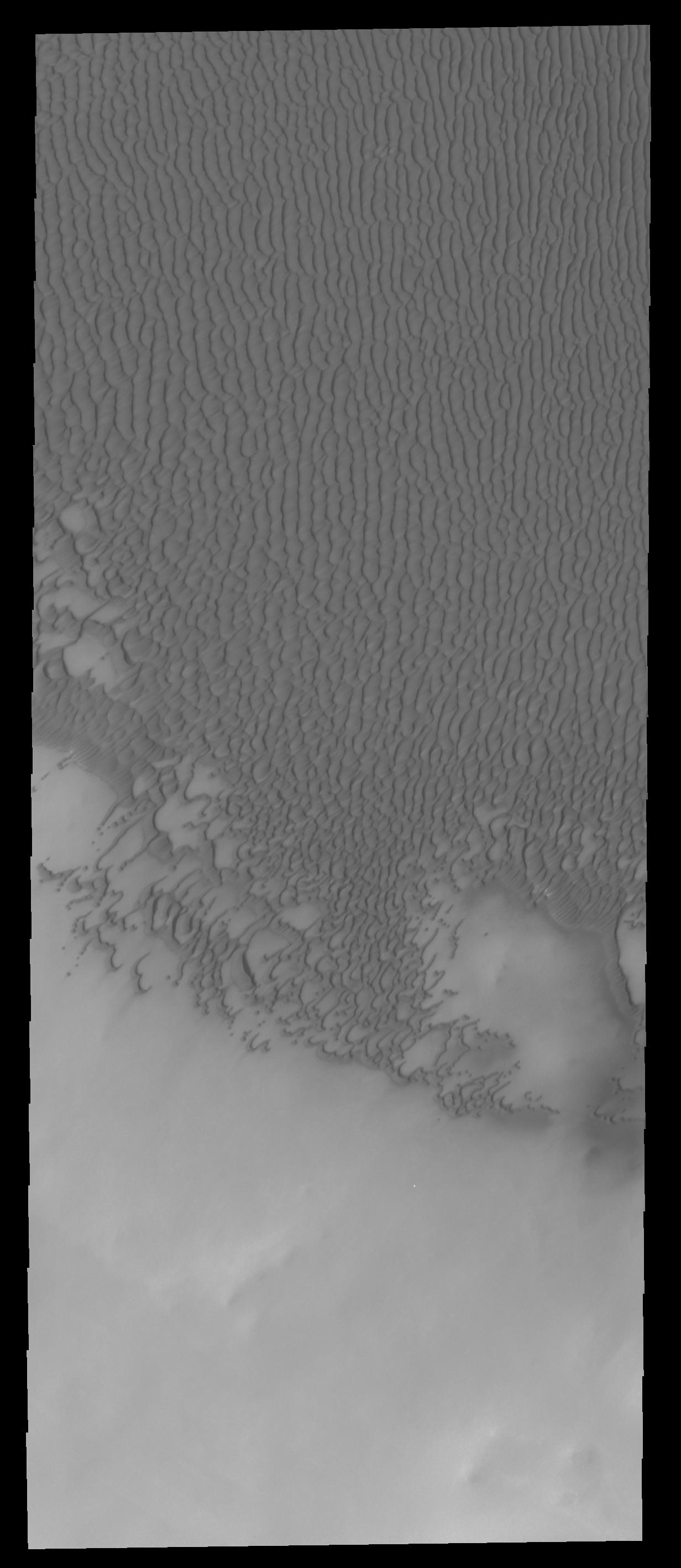 Sand dunes in Olympia Undae photographed by the VIS instrument aboard the 2001 Mars Odyssey spacecraft.